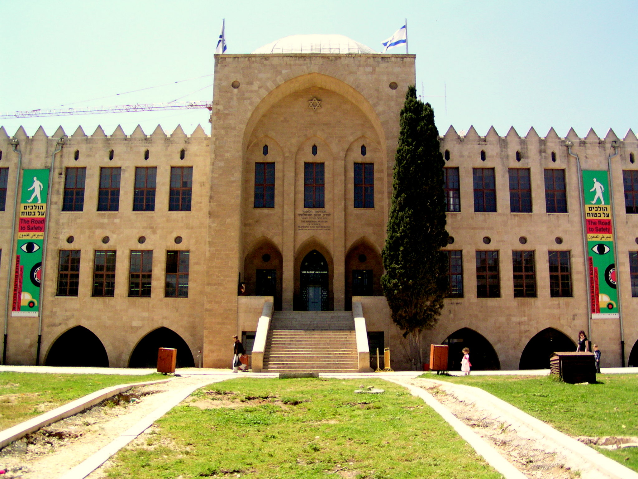 The National Museum of Science, Technology and Space (Daniel and Matilda Recanati Center) in Haifa, Israel. Situated in the historical Bervald building of the Technion institute.